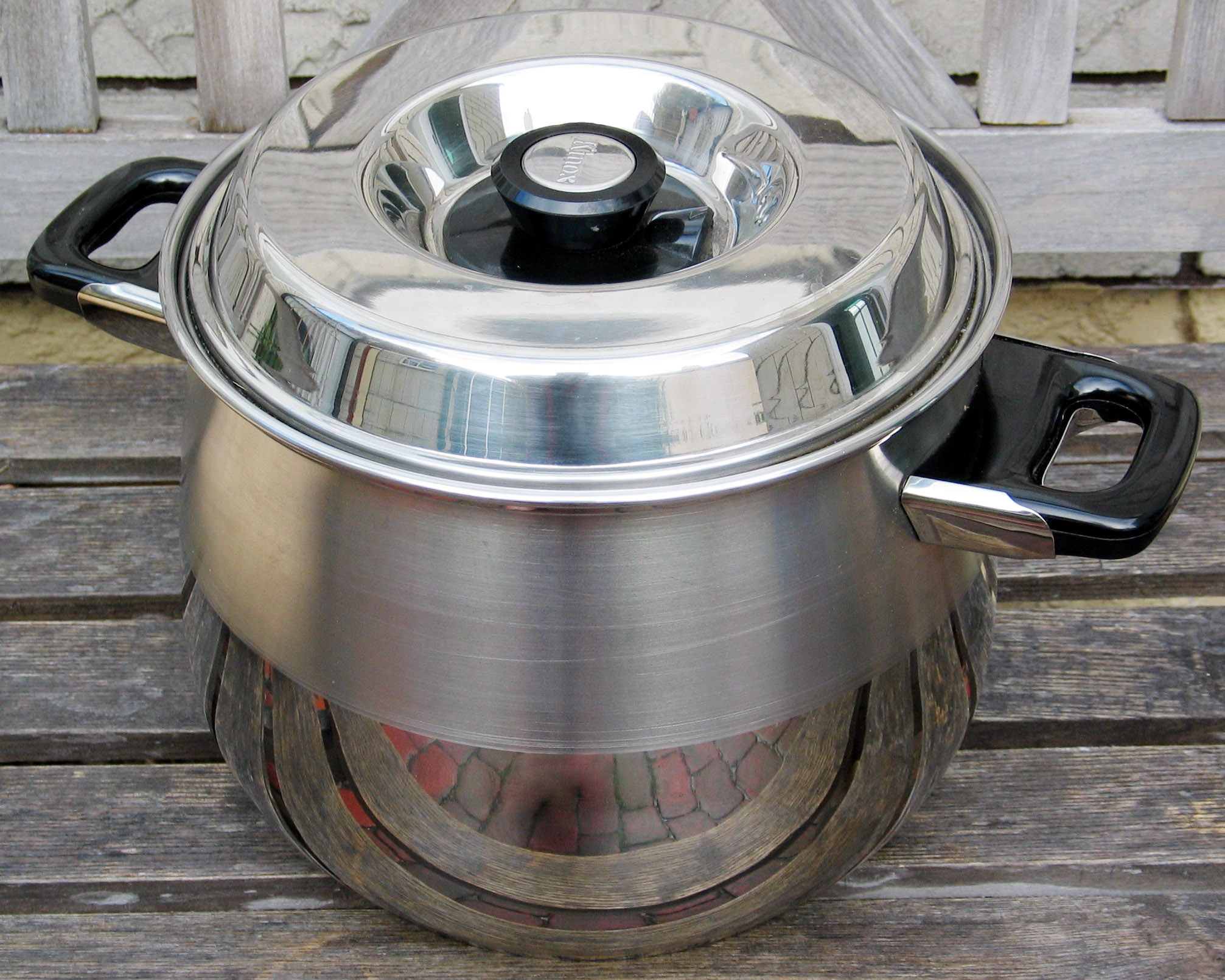 This is a Kinox stock pot.